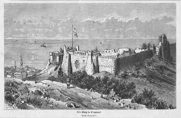 "Alte Burg in Trapezunt", from a magazine in 1877